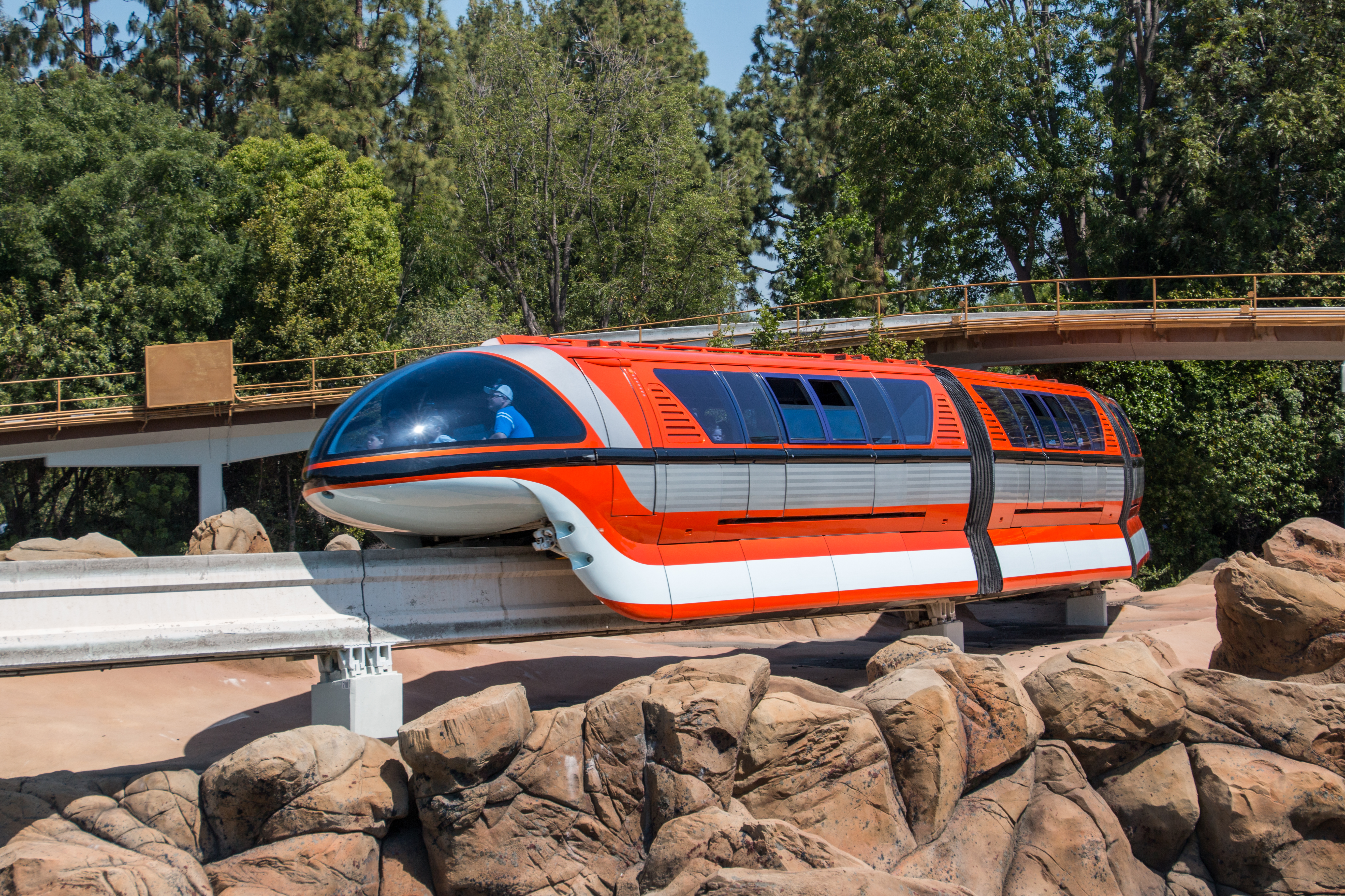 As seen from the Tomorrowland monorail station in Disneyland.